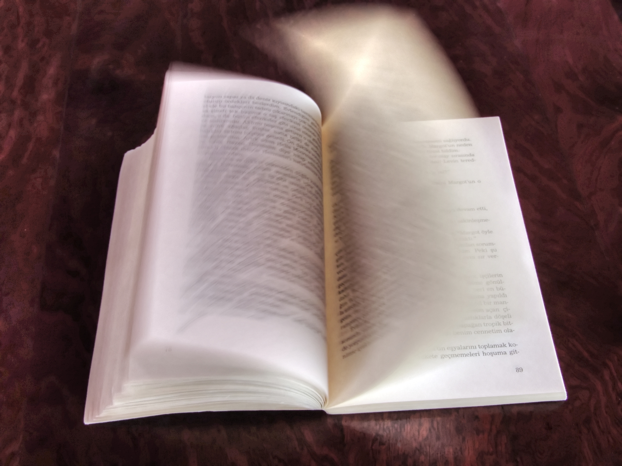 Book photographs